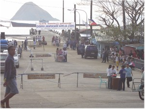 Pasacao